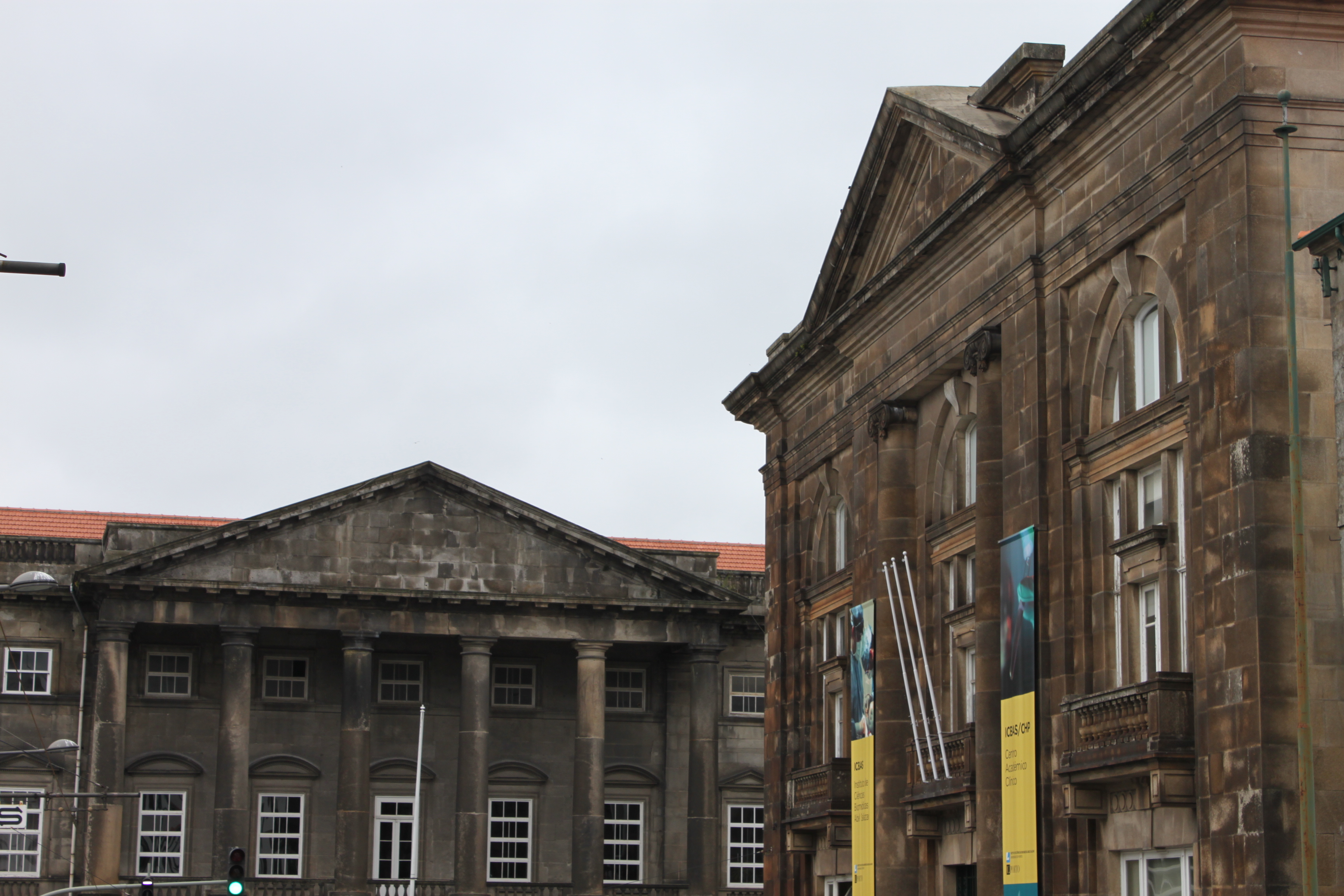 View of ICBAS and the HGSA